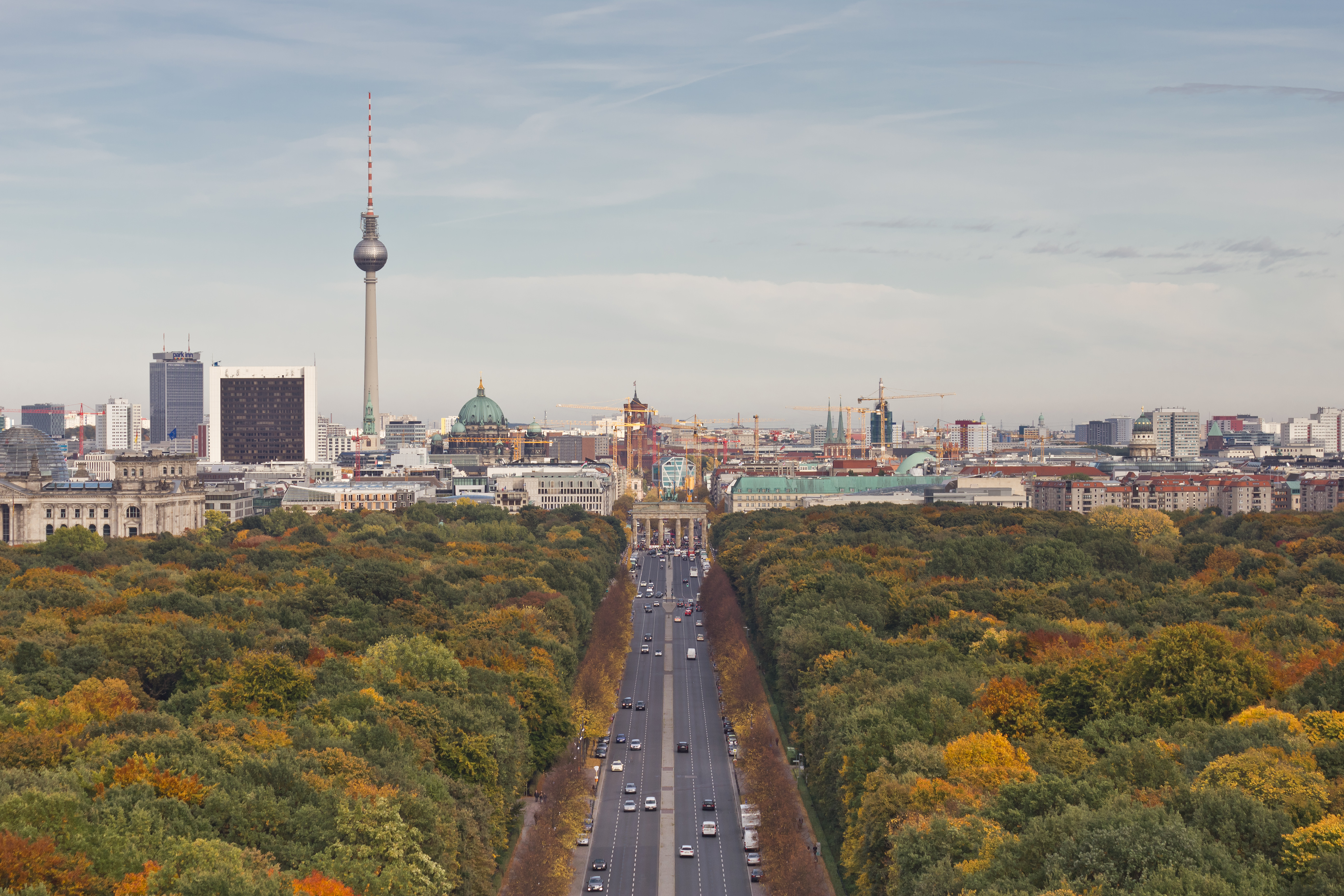 View from the Victory Column towards Mitte, Berlin, Germany